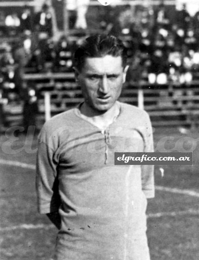 Pedro Calomino